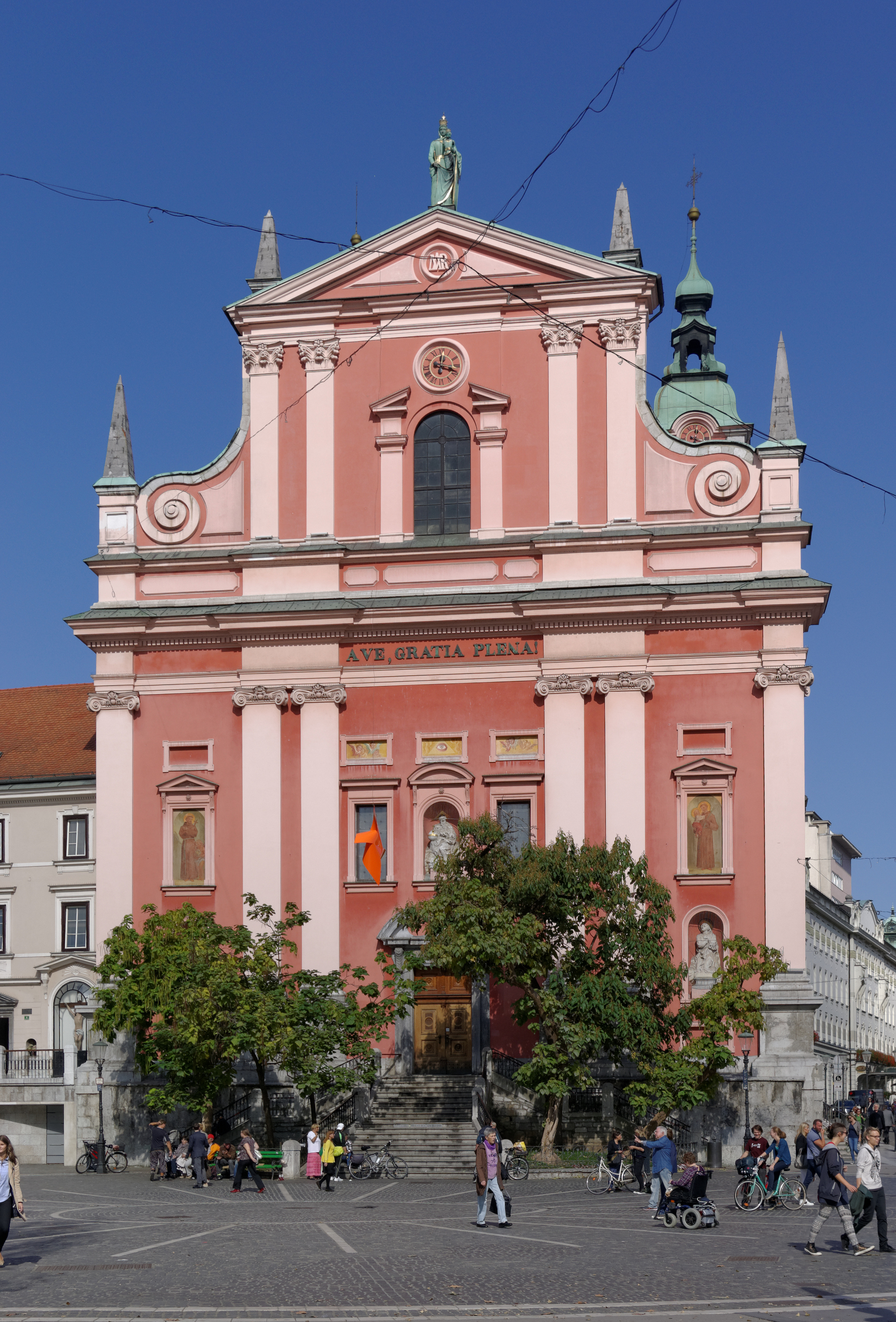 Slovenia, Ljubljana, Franciscan Church of the Annunciation